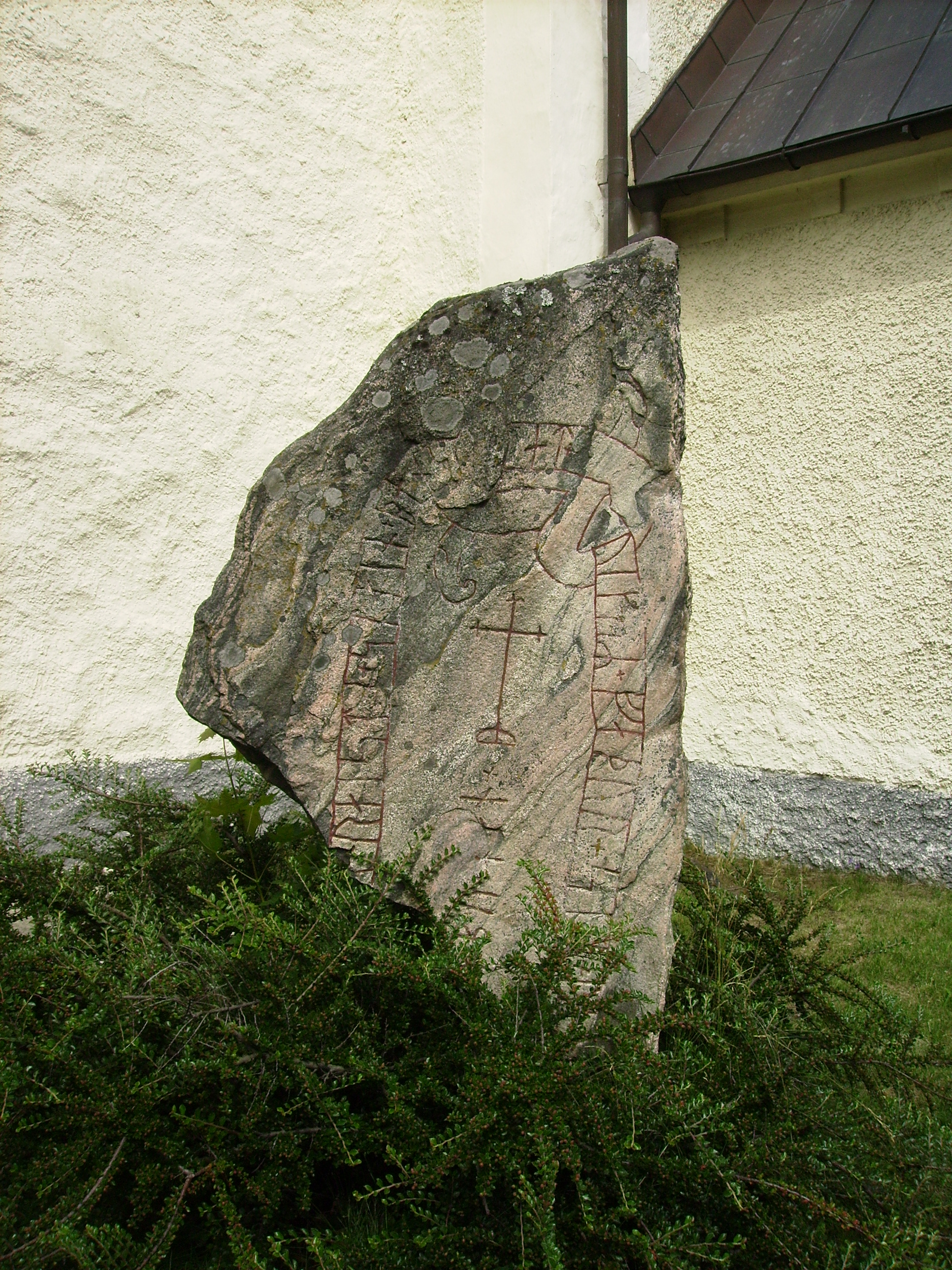 Picture of runestone Sö 351 at Överjärna kyrka in Järna, Södermanland